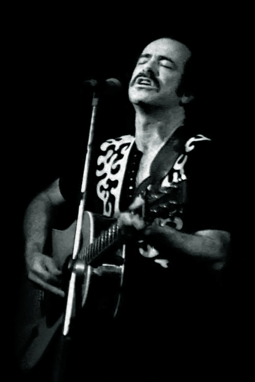 "This is a photograph of Robert Hunter who wrote many of the songs performed by The Grateful Dead. I took this photo back in the early 1980's. He was performing in Philadelphia. I developed the film myself. I was amazed to find the negative and quickly made this transfer."